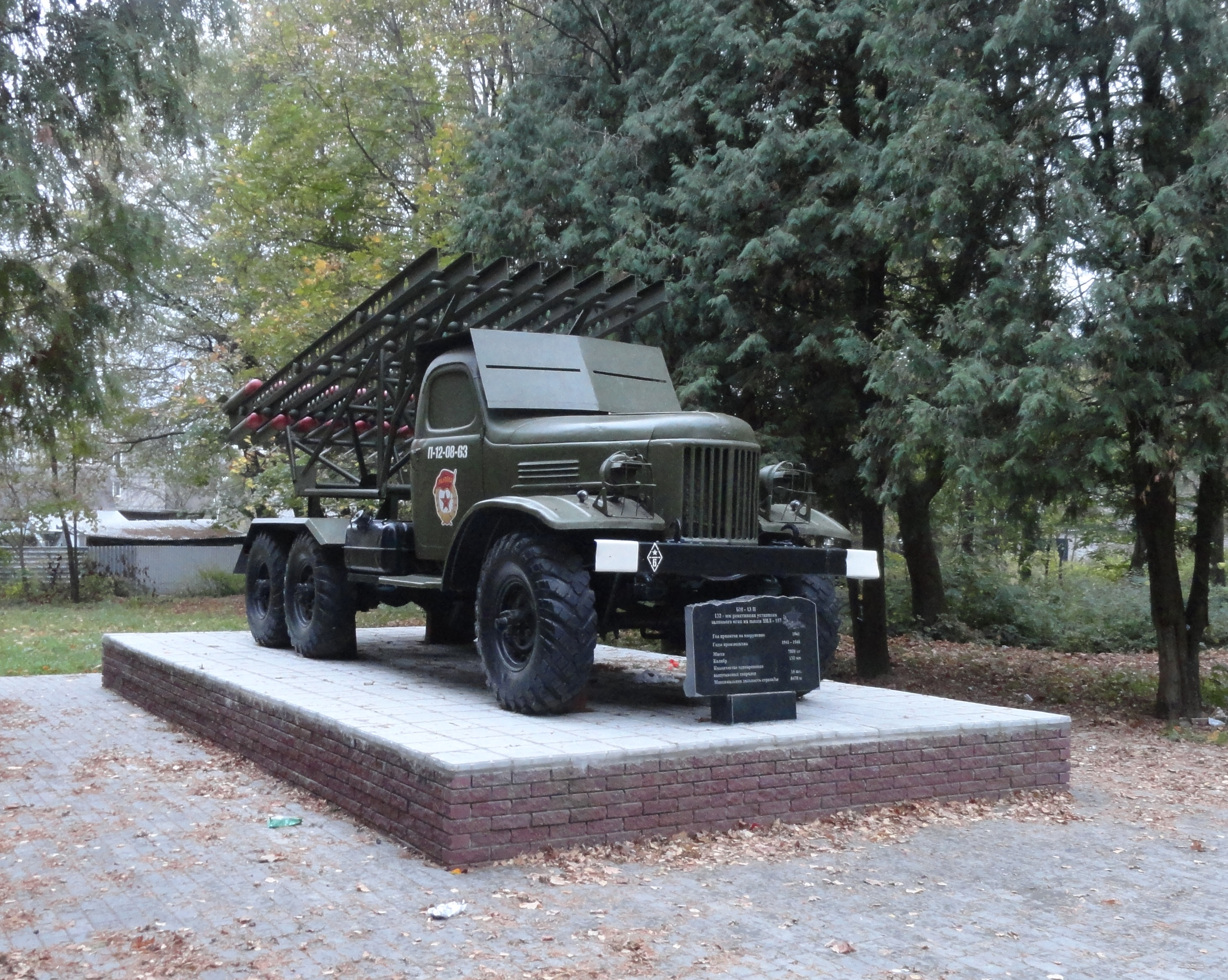 Reactive installation of salvo-fire BM-13 on the base of ZIL-157. The monument was erected in the village of Selection (settlement of the plant breeding station), Kstovsky district, Nizhny Novgorod region.